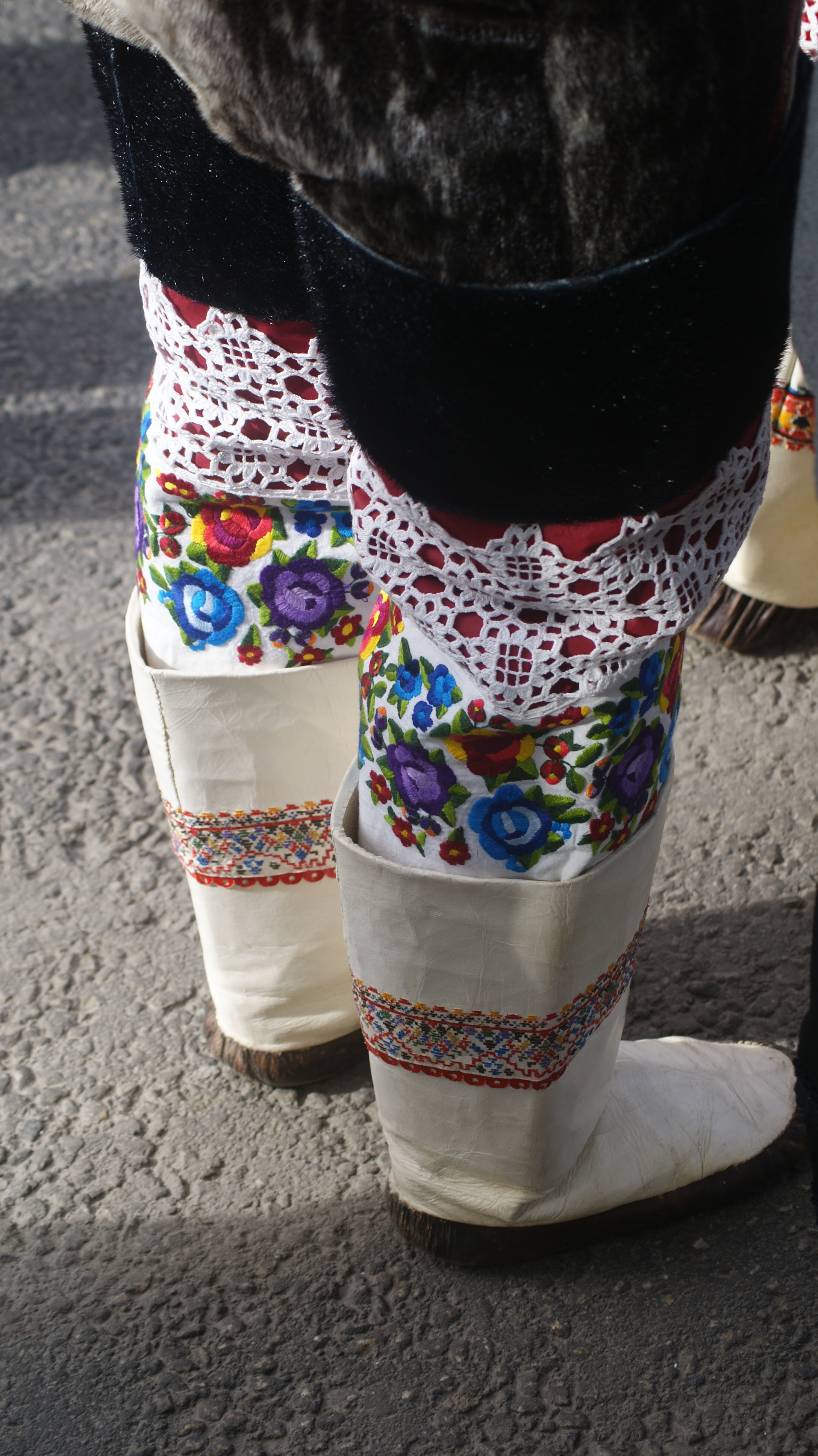 Traditional kamik boots of ceremonial variety worn by women in Greenland during special occasions (such as the National Day on the 21st of June). Photographed in Sisimiut, Greenland.